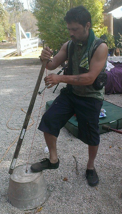 Kianti Ecolove playing washtub bass. From a public domain image photographed by Jesse Looming